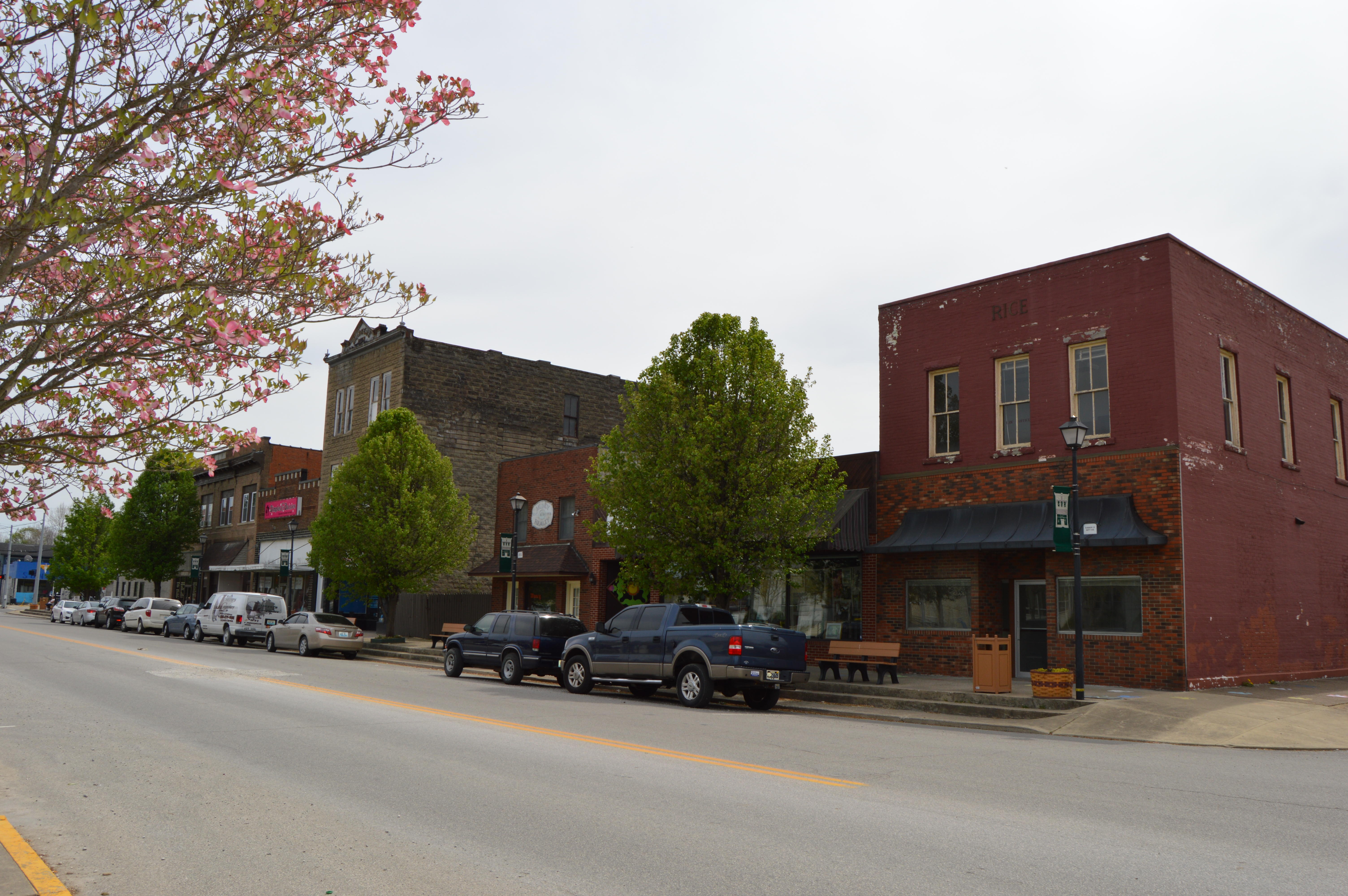 Eastern side of Main Cross Street (Kentucky Route 2566) across from the Lawrence County Courthouse in downtown Louisa, Kentucky, United States. This block is part of the Louisa Commercial Historic District, a historic district that is listed on the National Register of Historic Places.